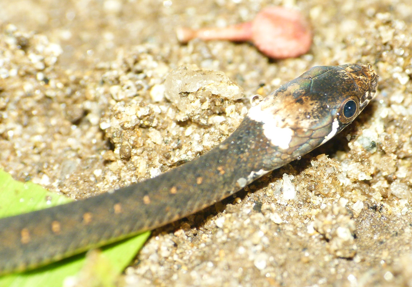 Amphiesma beddomei Young individual (Location:Mudigere, India)